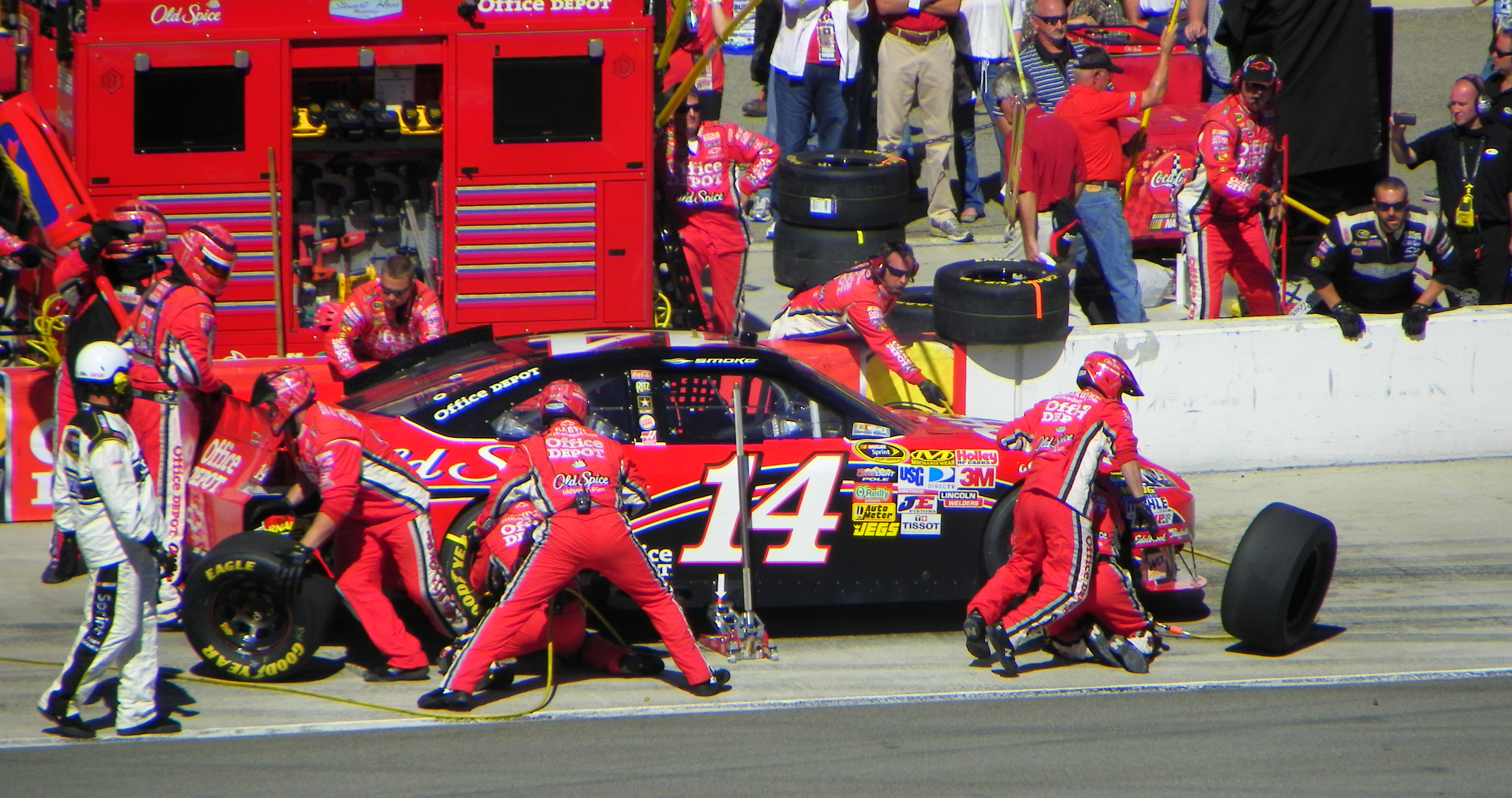 A pit stop for Tony Stewart at the Pepsi Max 400 at Auto Club Speedway.